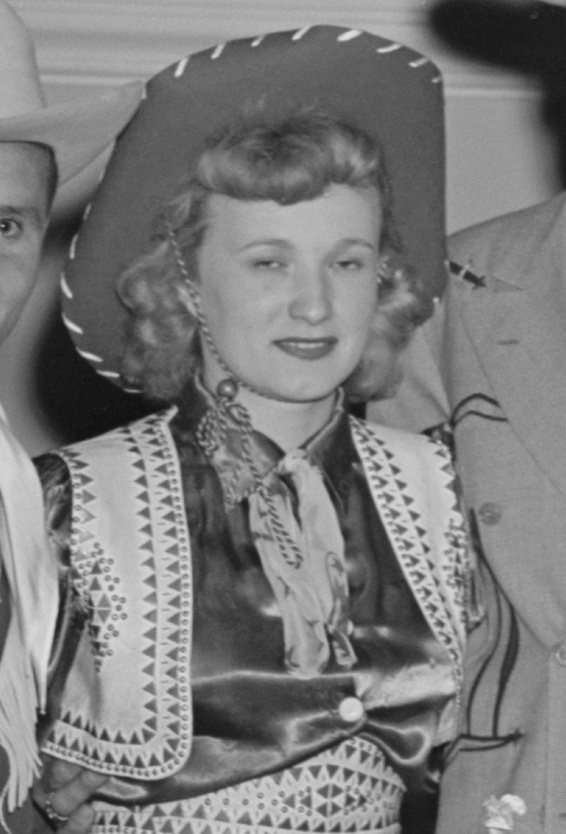 Rosalie Allen, Carnegie Hall, New York, N.Y., Sept. 18-19, 1947